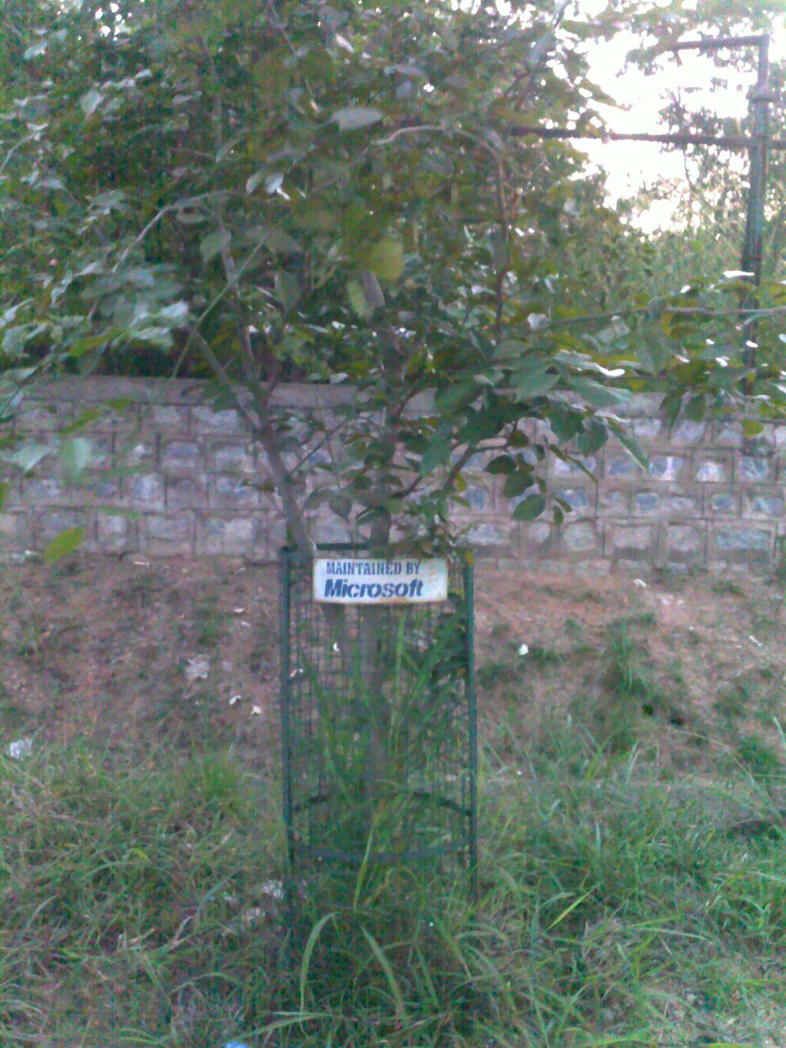 Road-side planting by Microsoft, near Dell's office, 100ft Road, Indiranagar, Bangalore, India. (Bad camera, bad quality). Picture unedited.